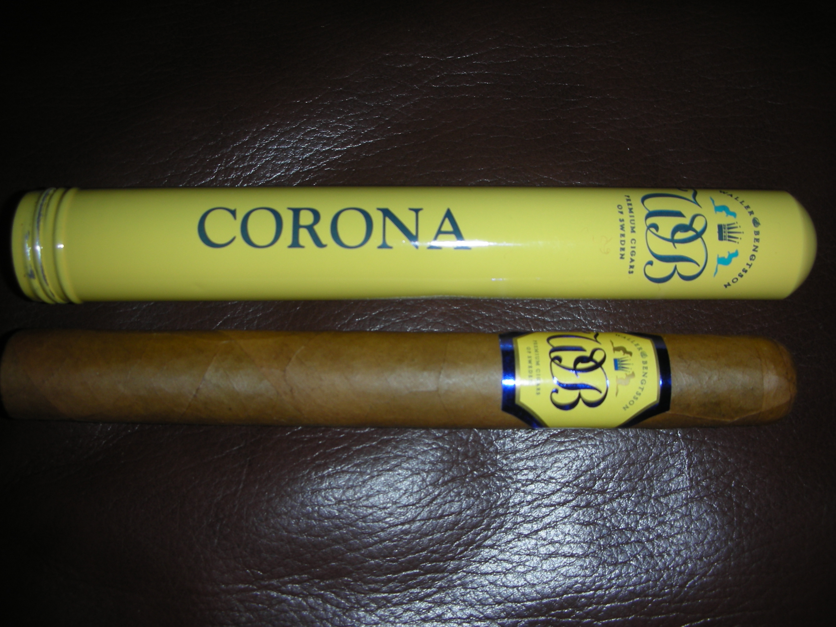 A cigar by the brand Waller & Bengtsson